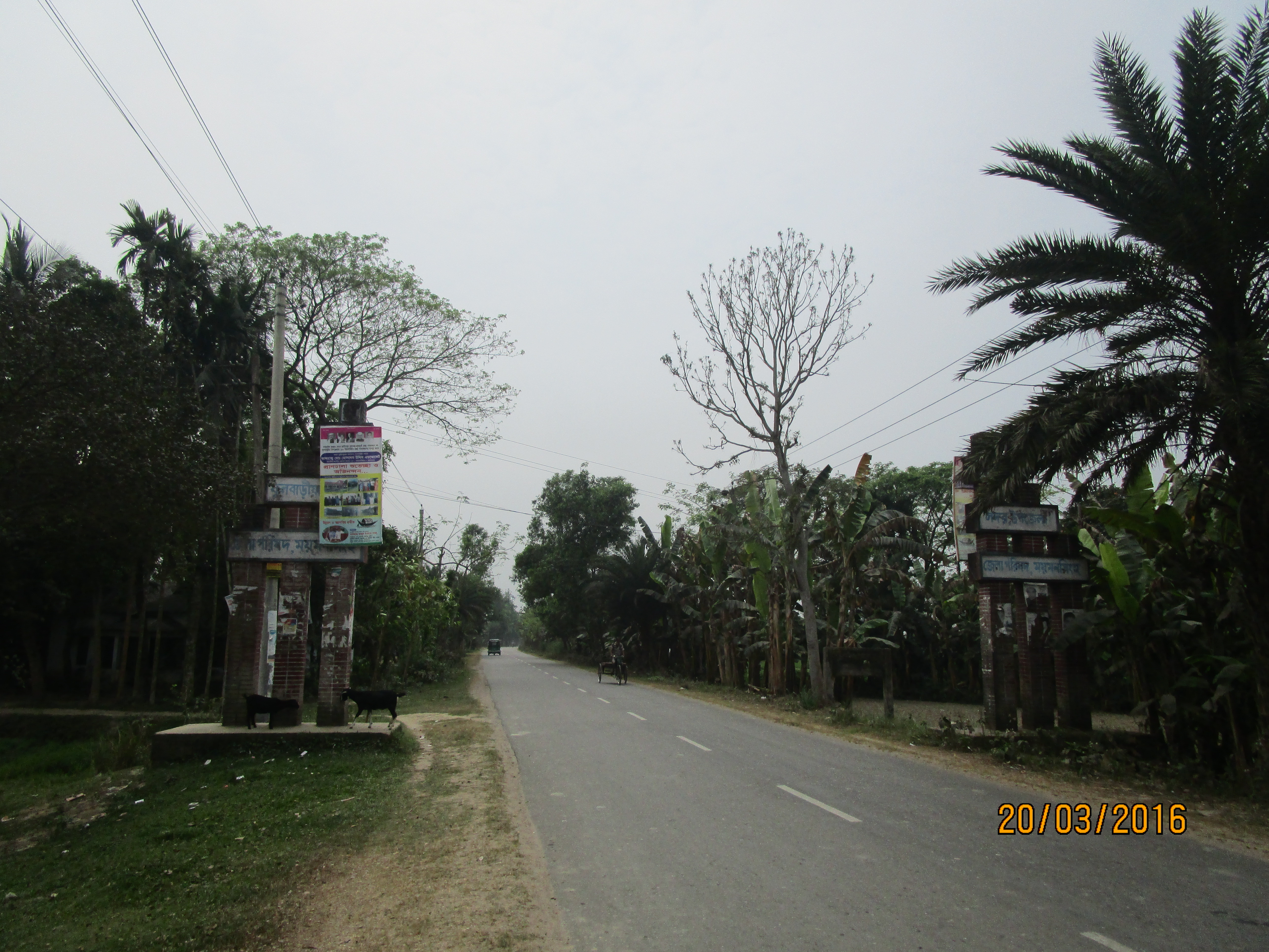 Z3035 at Katlasen, welcome sign of Fulbaria Upazila